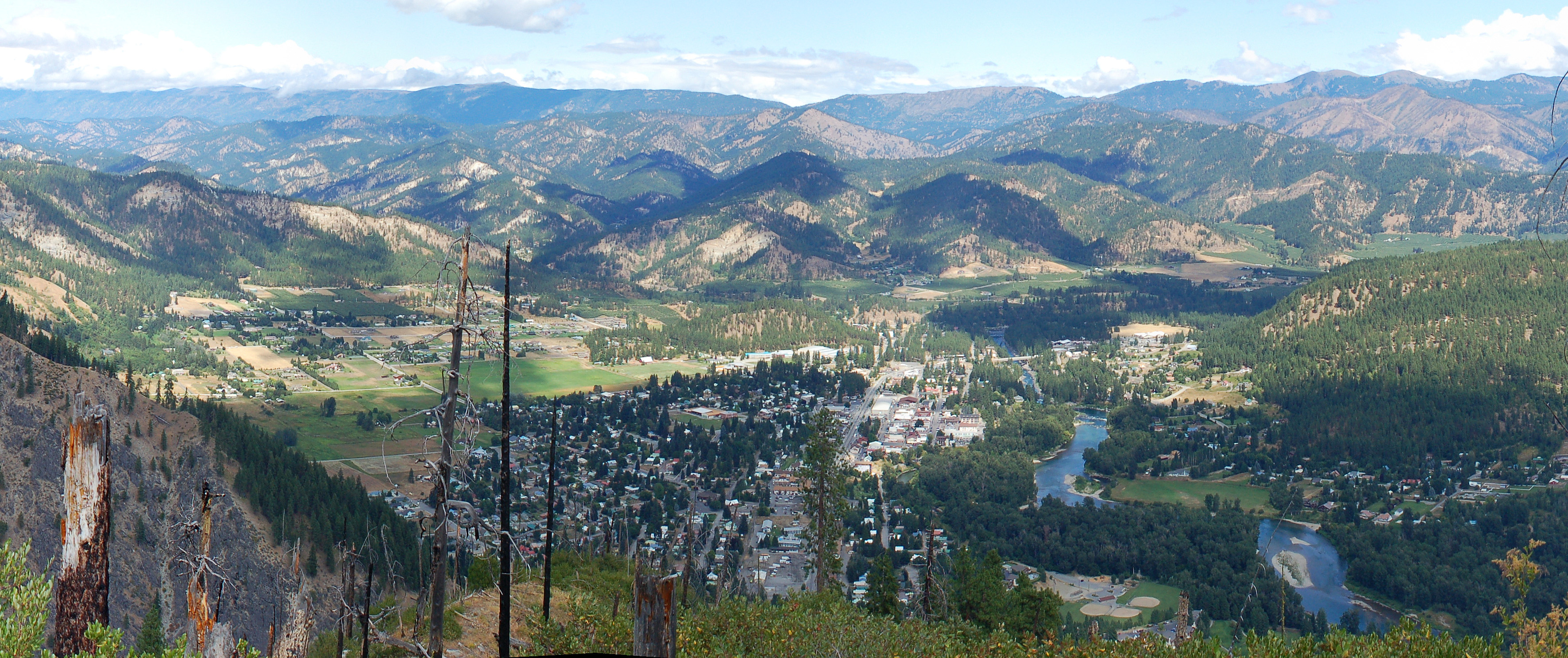 Downtown Leavenworth, 1500 feet below, as viewed from adjacent Icicle Ridge on an August afternoon. Photo by Gregg M. Erickson